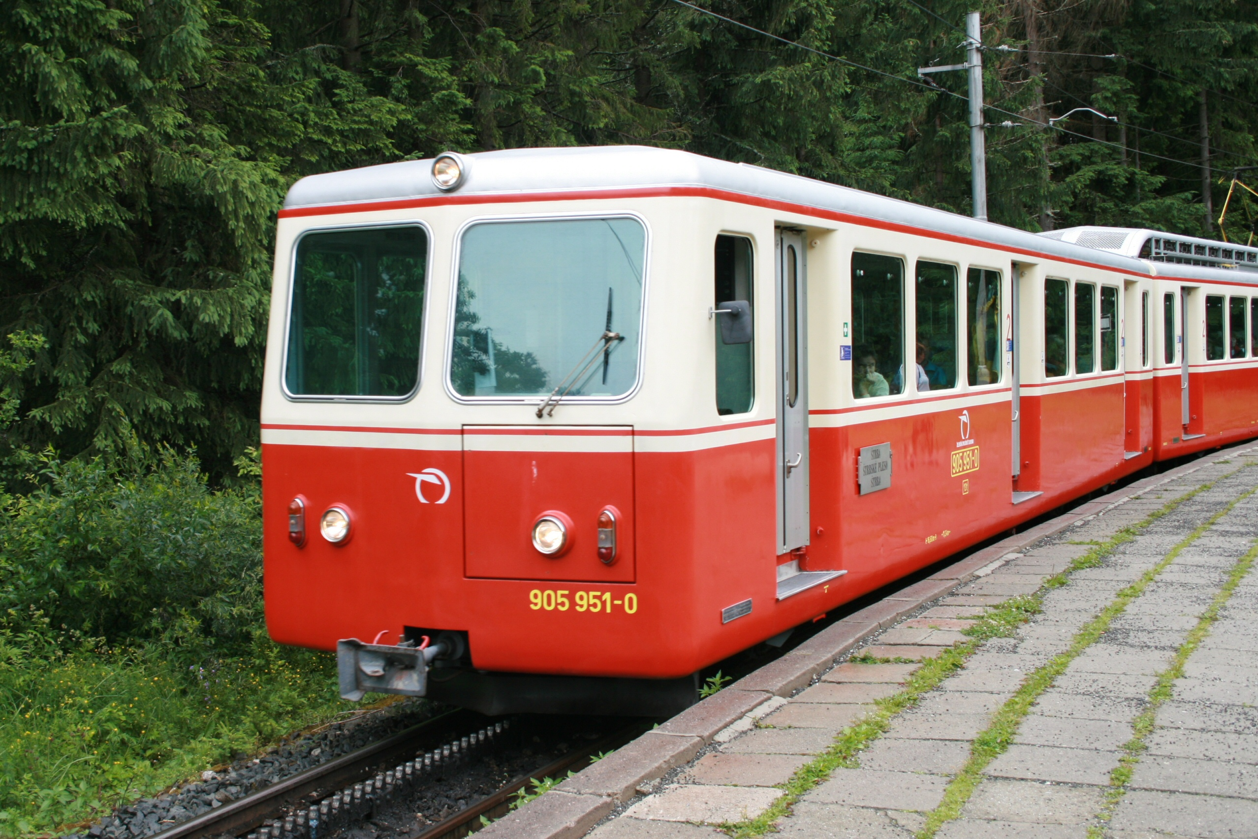 Unit of the rack railway Štrba–Štrbské Pleso, at the train stop Lieskovec (Slovakia).